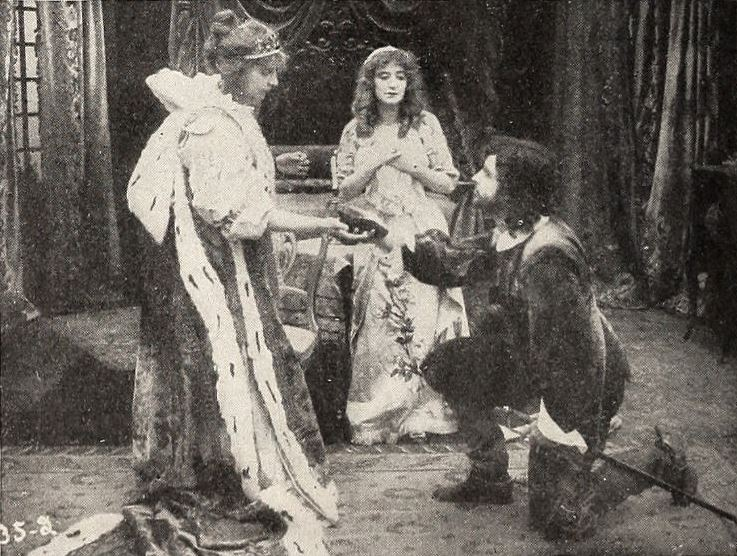 Still from the American drama film The Three Musketeers (1916), on page 114 of the March 1916 Cine-Mundial (American Spanish language magazine).